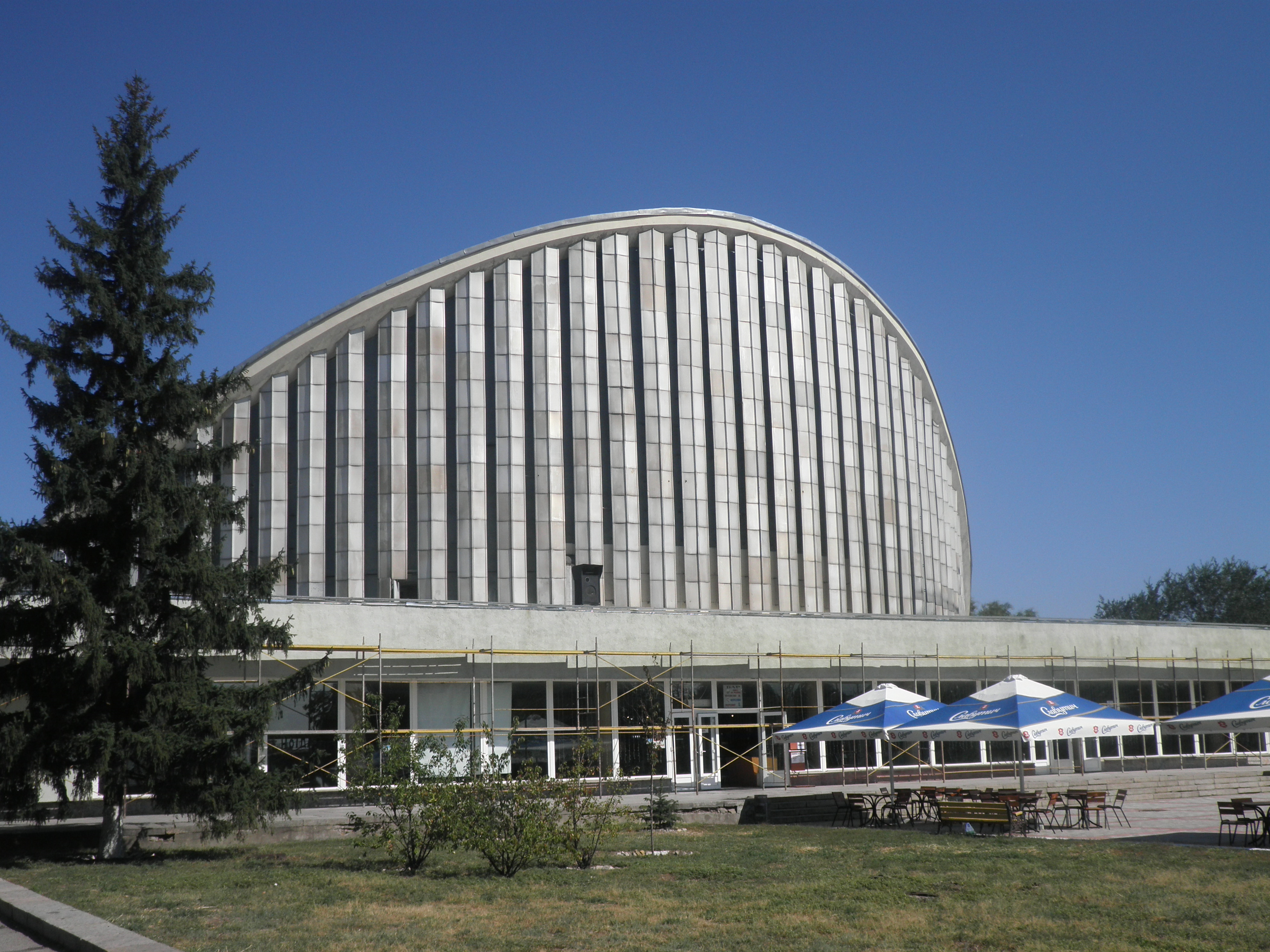 One of the biggest cinemas in Kherson, Ukraine.